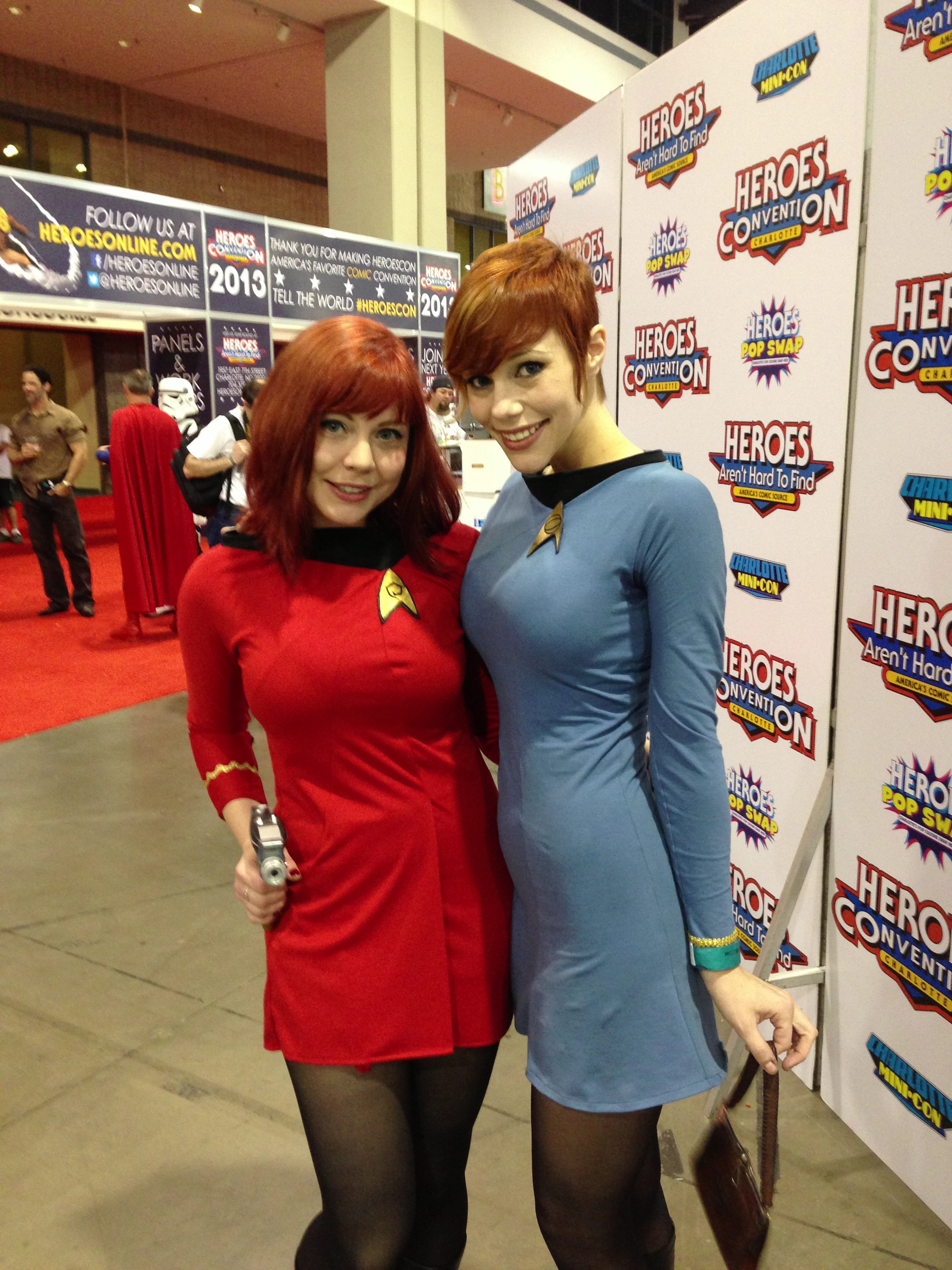 Photograph taken on Heroes Con 2013.